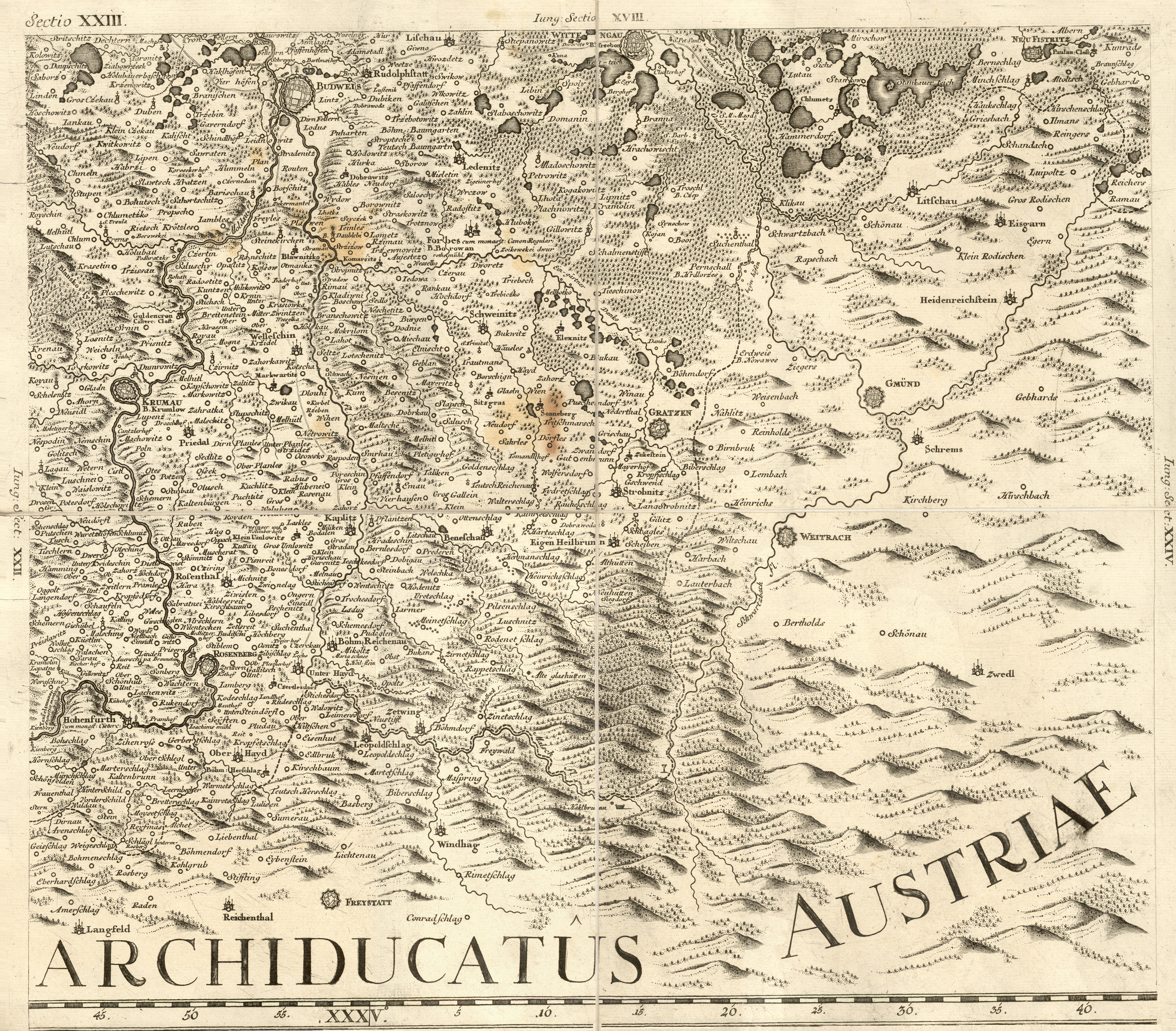 Müller's map of Bohemia.